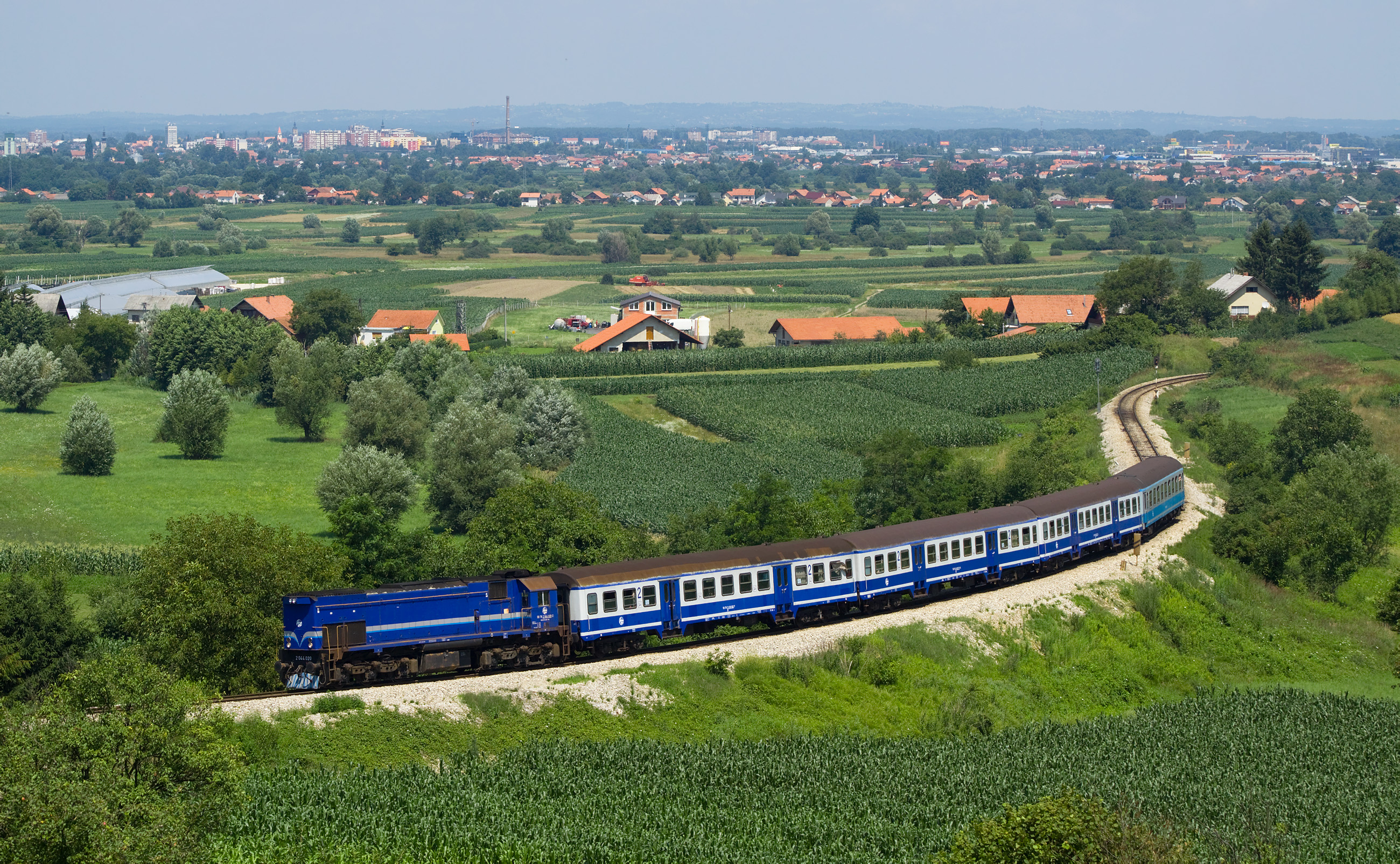 Hrvatske Željeznice class 2044 with a local train to Zagreb between Turcin and Sveti Ilija, Croatia.